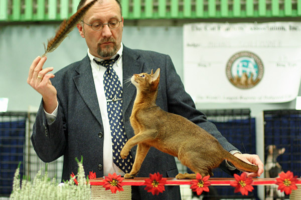 Ruddy aby at CFA cat show